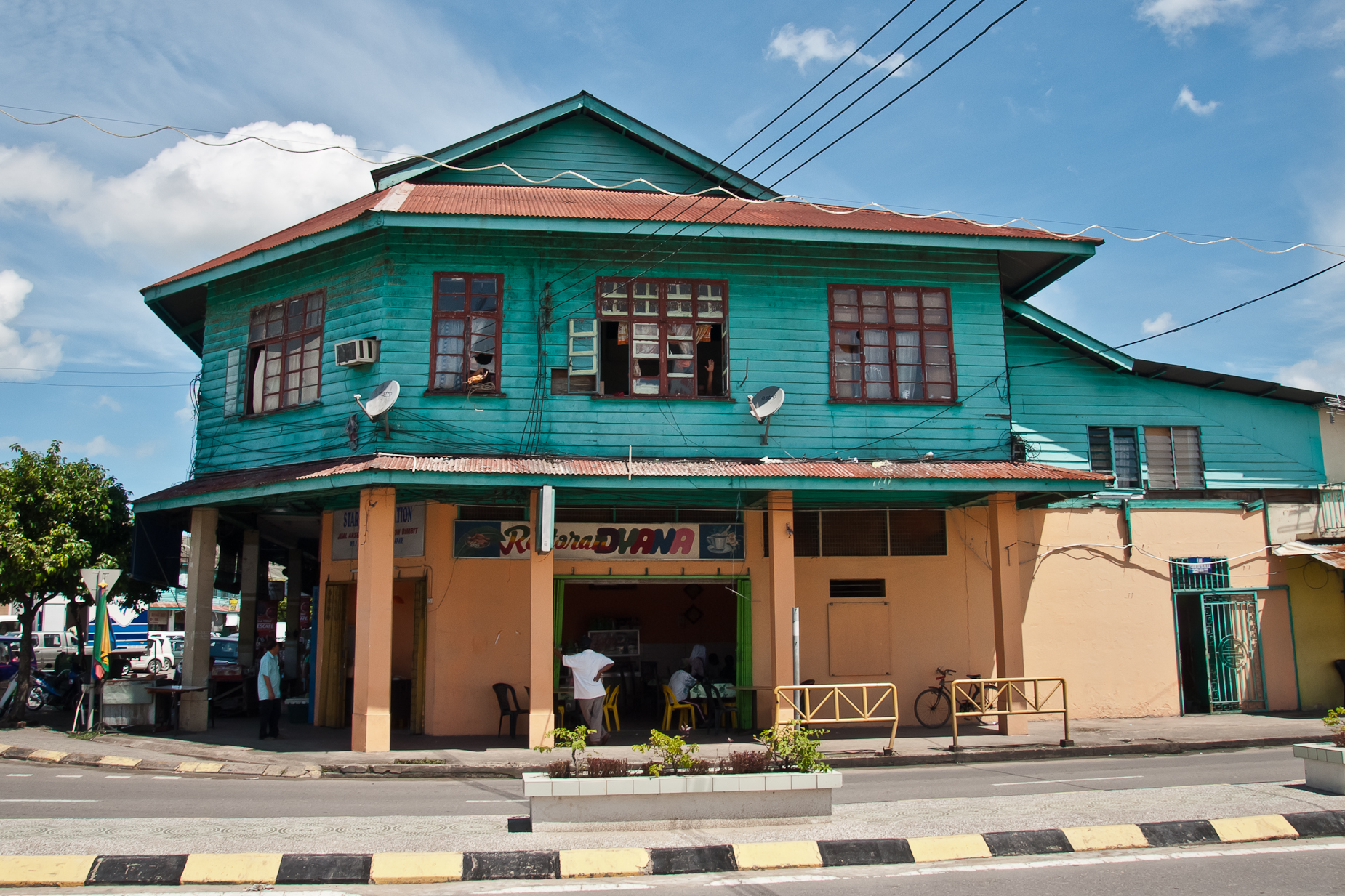 Papar (Sabah), Old Town House